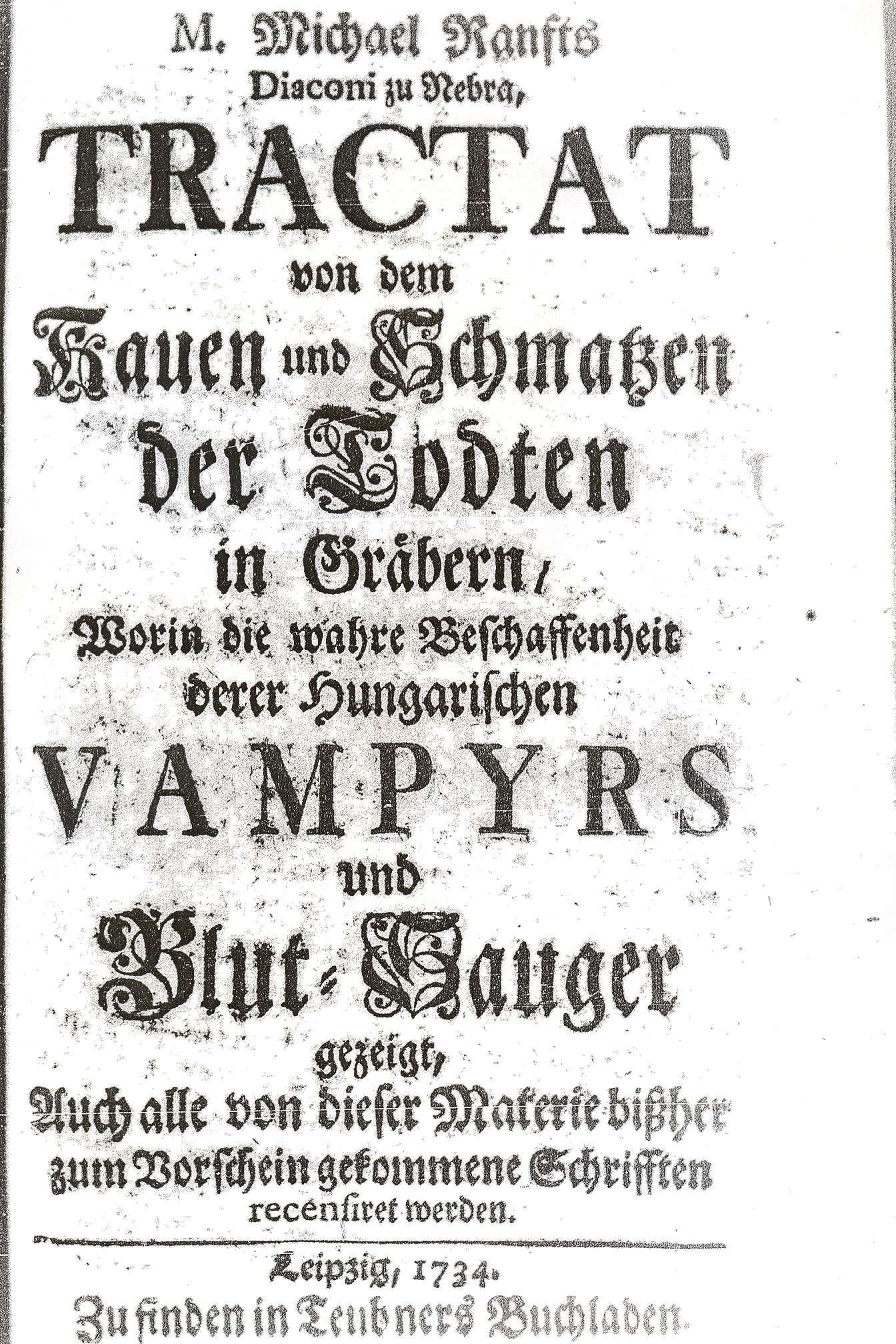 This is a scan of the document: Titel: Tractat von dem Kauen und Schmatzen der Todten in Gräbern, worin die wahre Beschaffenheit derer Hungarischen Vampyrs und Blut-Sauger gezeigt, auch alle von dieser Materie bißher zum Vorschein gekommene Schrifften recensiret werden